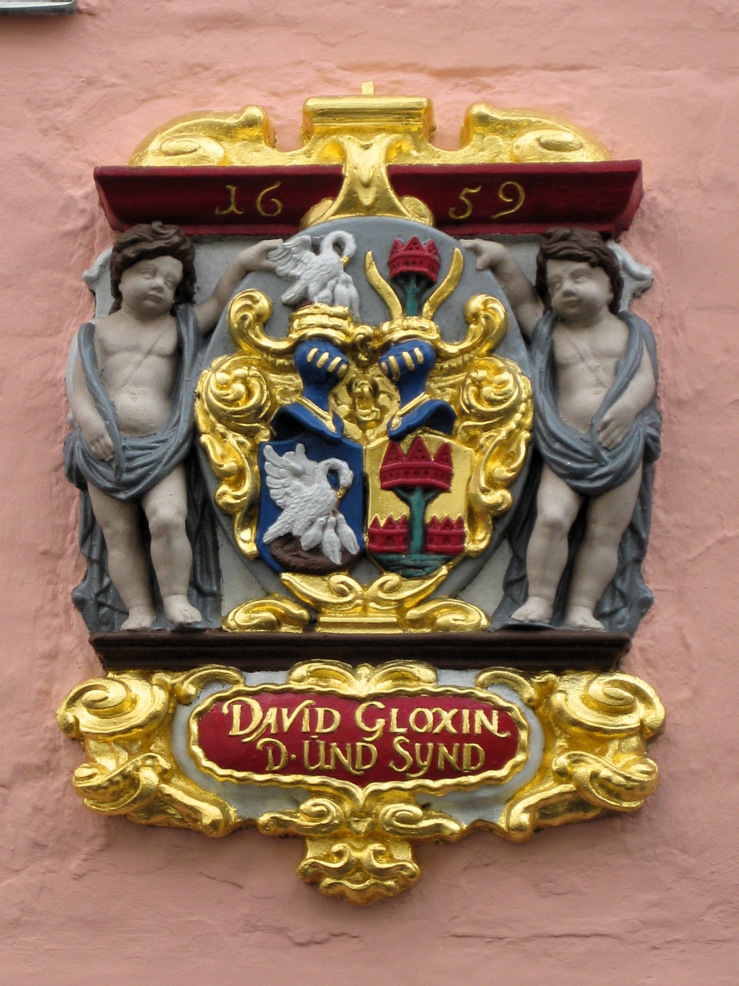 Coat of arms of Lübeck's mayor David Gloxin. Made by unknown sculptor in 1659.